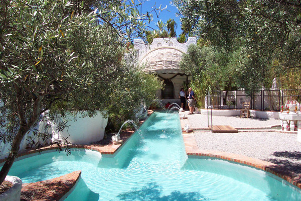 Swimming pool in the former house of Salvador Dali in Port Lligat